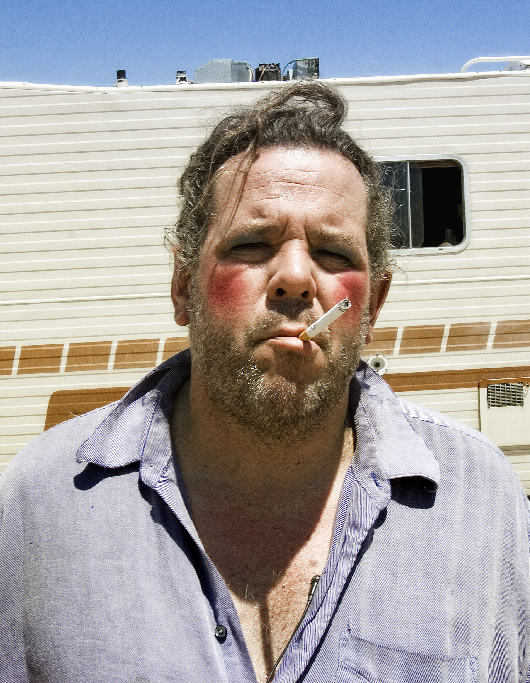 Mark Boone Junior as Bill Dooly on the set of The Mother of Invention.